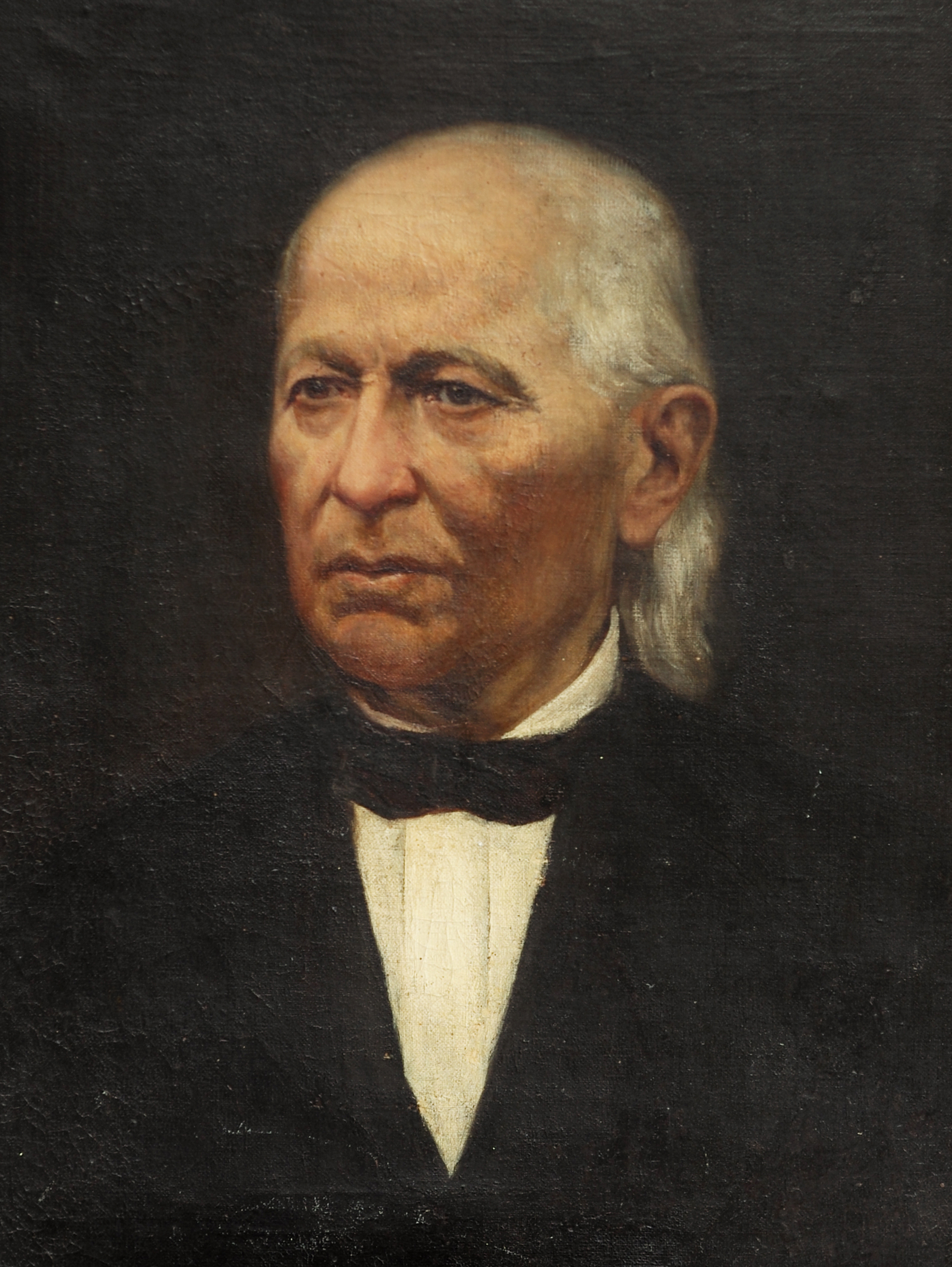 Portrait of Eduard Joseph von Schmidtlein (1798-1875), oil on canvas